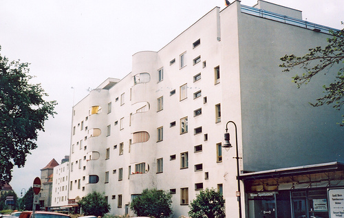 Apartment block in Siemensstadt, Berlin, designed by Hans Scharoun, 1929-31, photographed in August 2006